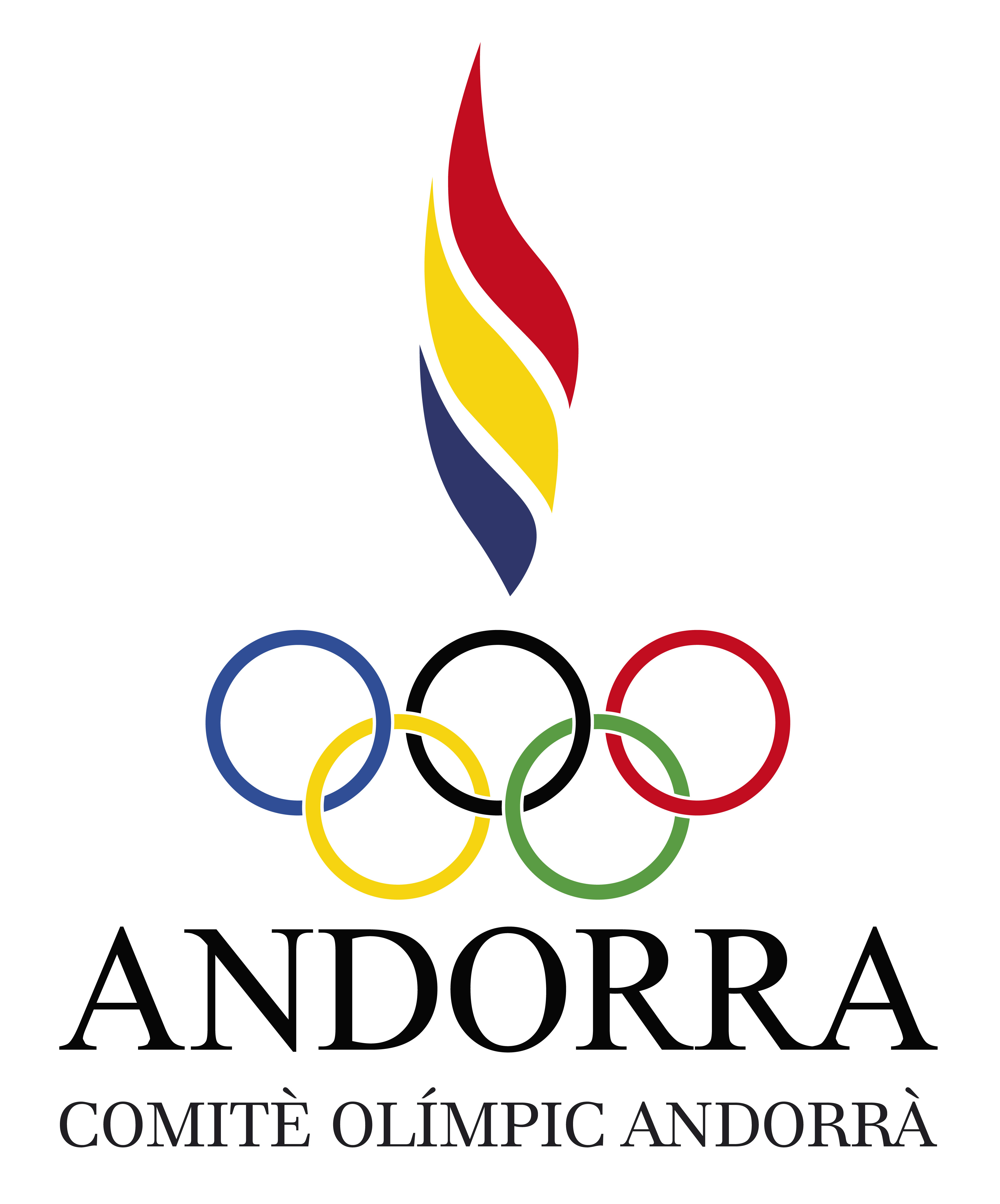 Andorran Olympic Comittee logo